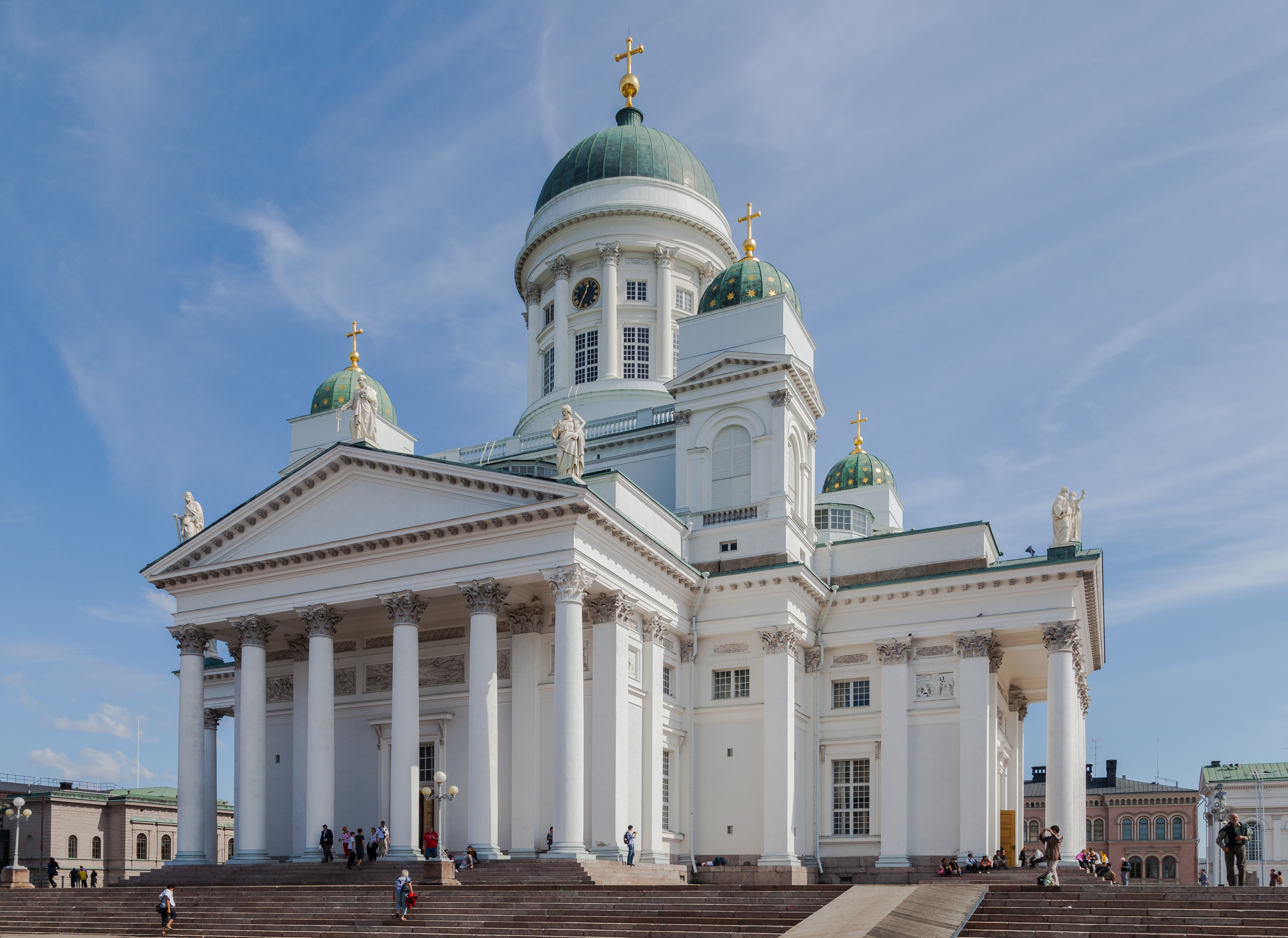 Helsinki Lutheran Cathedral, Finland